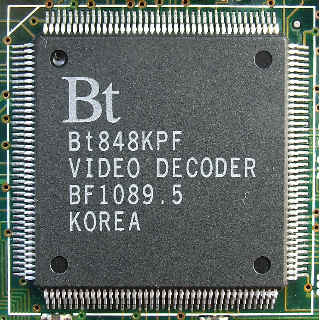 Brooktree Bt848KPF video decoder of a TV tuner card. It is a single-chip design for analog PAL/NTSC/SECAM video capture over the PCI bus.